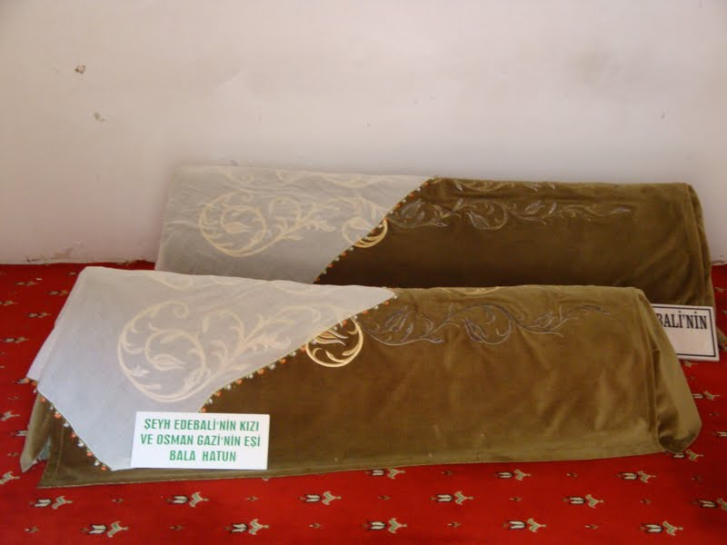 Tumb of Rabia Bala Hatun